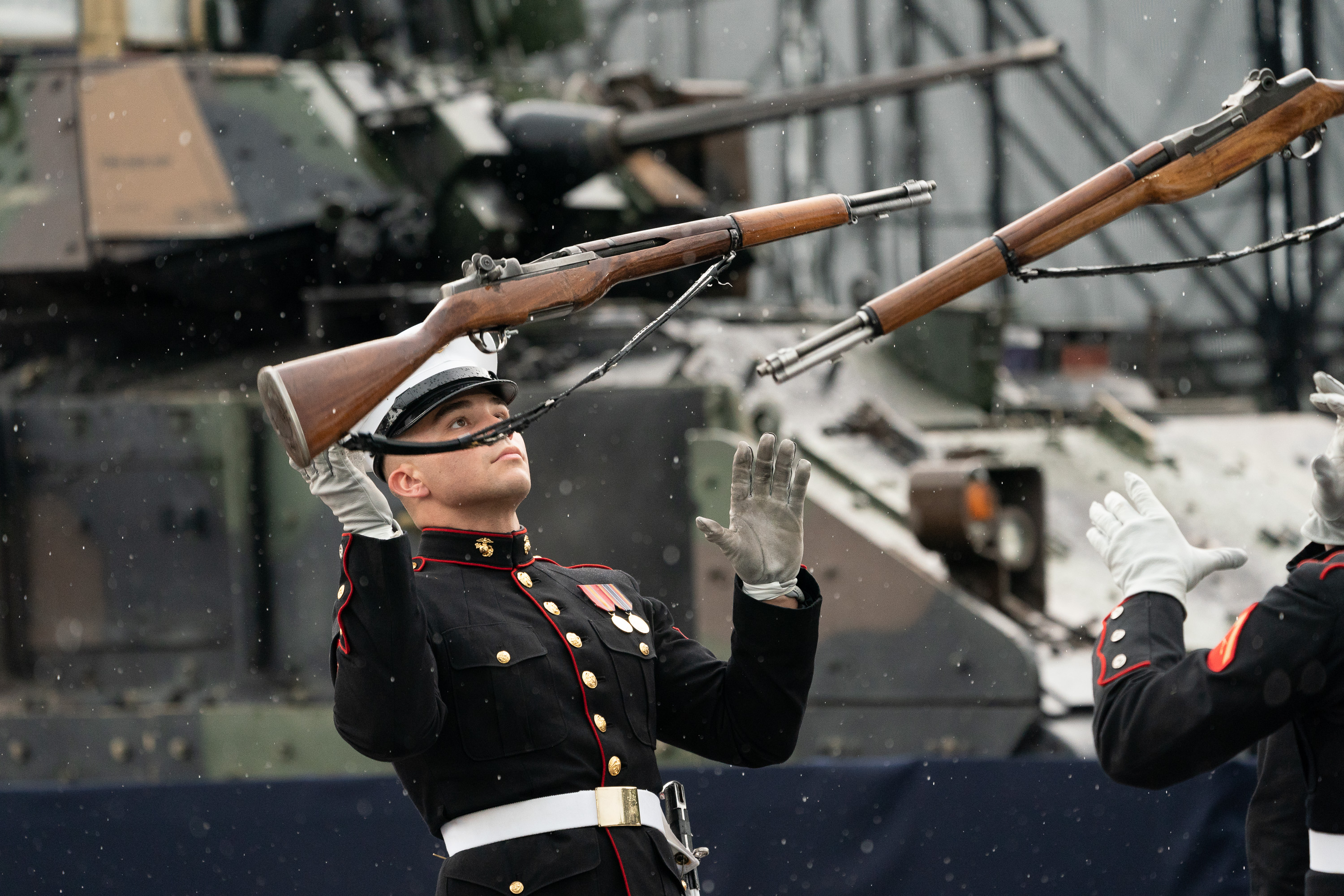 Members of the U.S. Marine Corps Silent Drill Platoon march in formation and perform at the Salute to America event Thursday, July 4, 2019, at the Lincoln Memorial in Washington, D.C. (Official White House Photo by Joyce N. Boghosian)